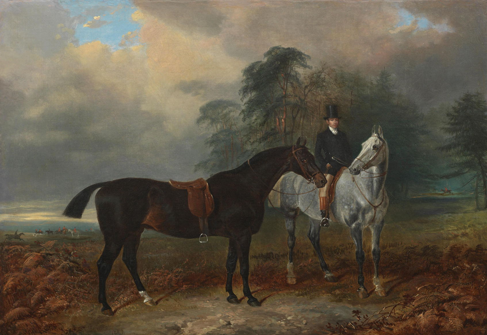 Oil on canvas painting by James Walsham Baldock, The Hunters at Rest, signed and dated 1858